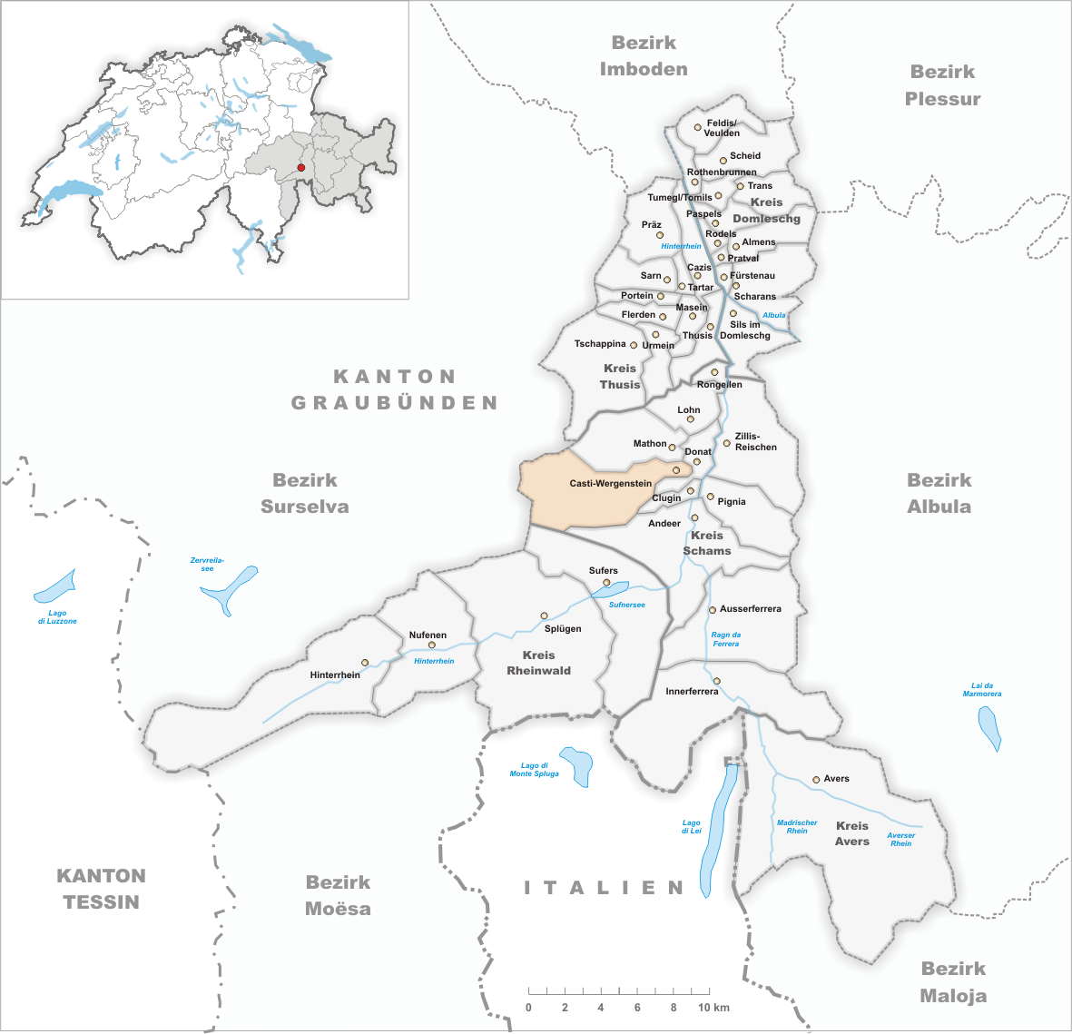 Municipality Casti-Wergenstein